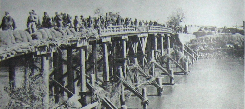 Chinese Communist troops head north to Manchuria(northeast China).新四军三师八旅开赴东北。